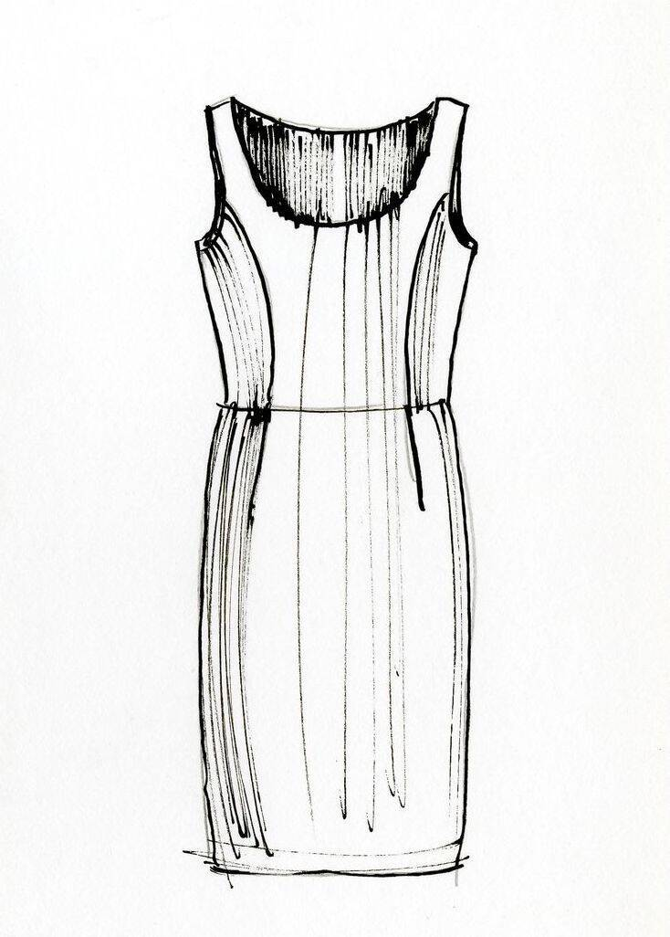 Drawing of the Thesaurus concept : 'sheath dress'